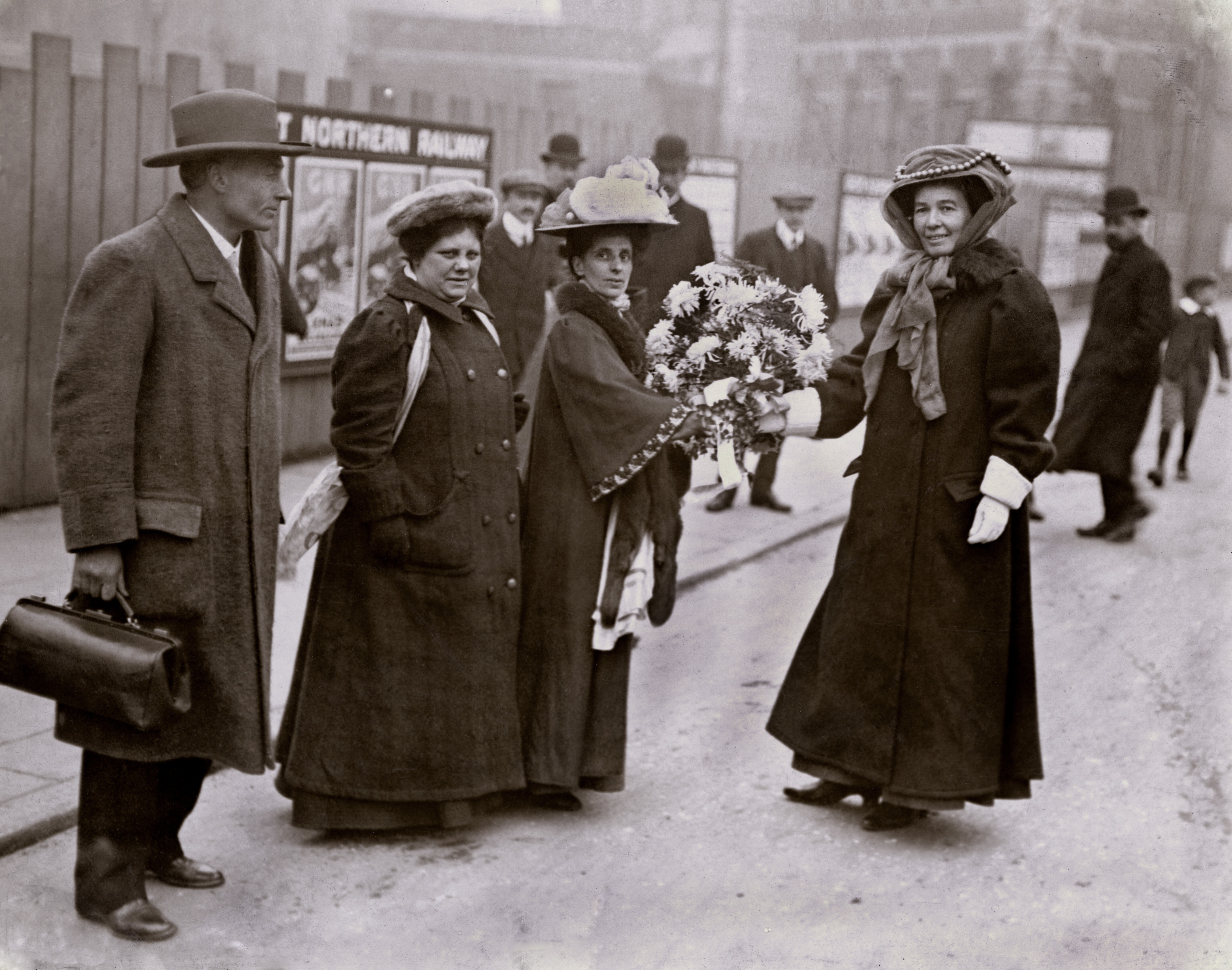 7JCC/O/02/130 Photograph, printed, paper, monochrome, left to right : Frederick Pethick Lawrence, Flora Drummond, Jennie Baines and Emmeline Pethick Lawrence, c. 1906-1910; manuscript inscription on reverse 'Mrs Baines', printed 'Please acknowledge LNA Photo. London News Agency Photos Ltd, 46 Fleet Street, EC'